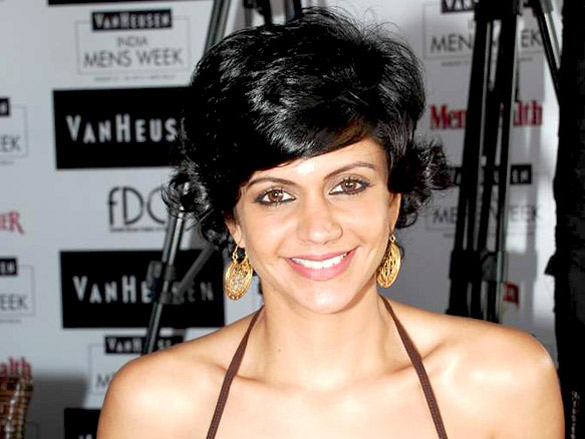 Mandira Bedi at Van Heusen Men's Fashion Week model auditions